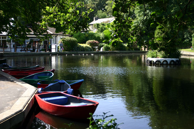 Silverdale Glen. A water-powered roundabout and a watermill are features here, as well as this boating lake and craft centre.